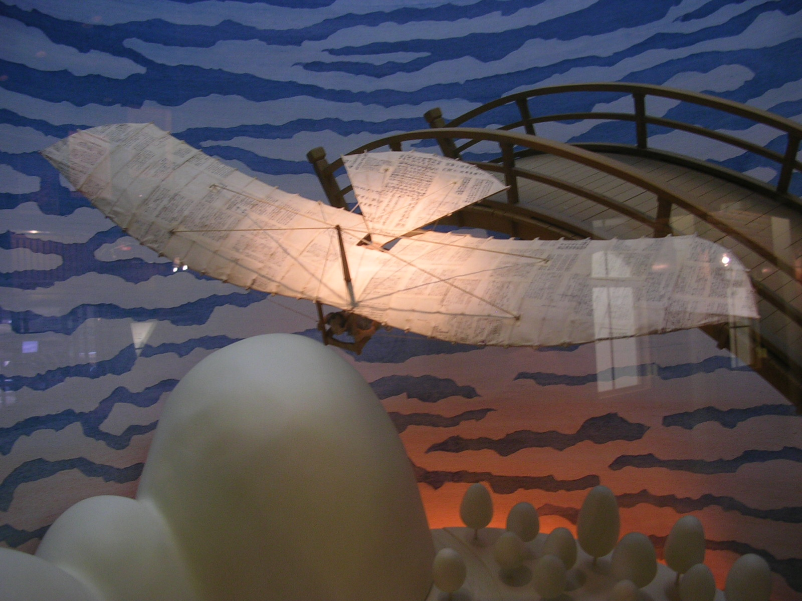 Ukita Kōkichi is said to be the first Japanese aviator who flied in his original glider.